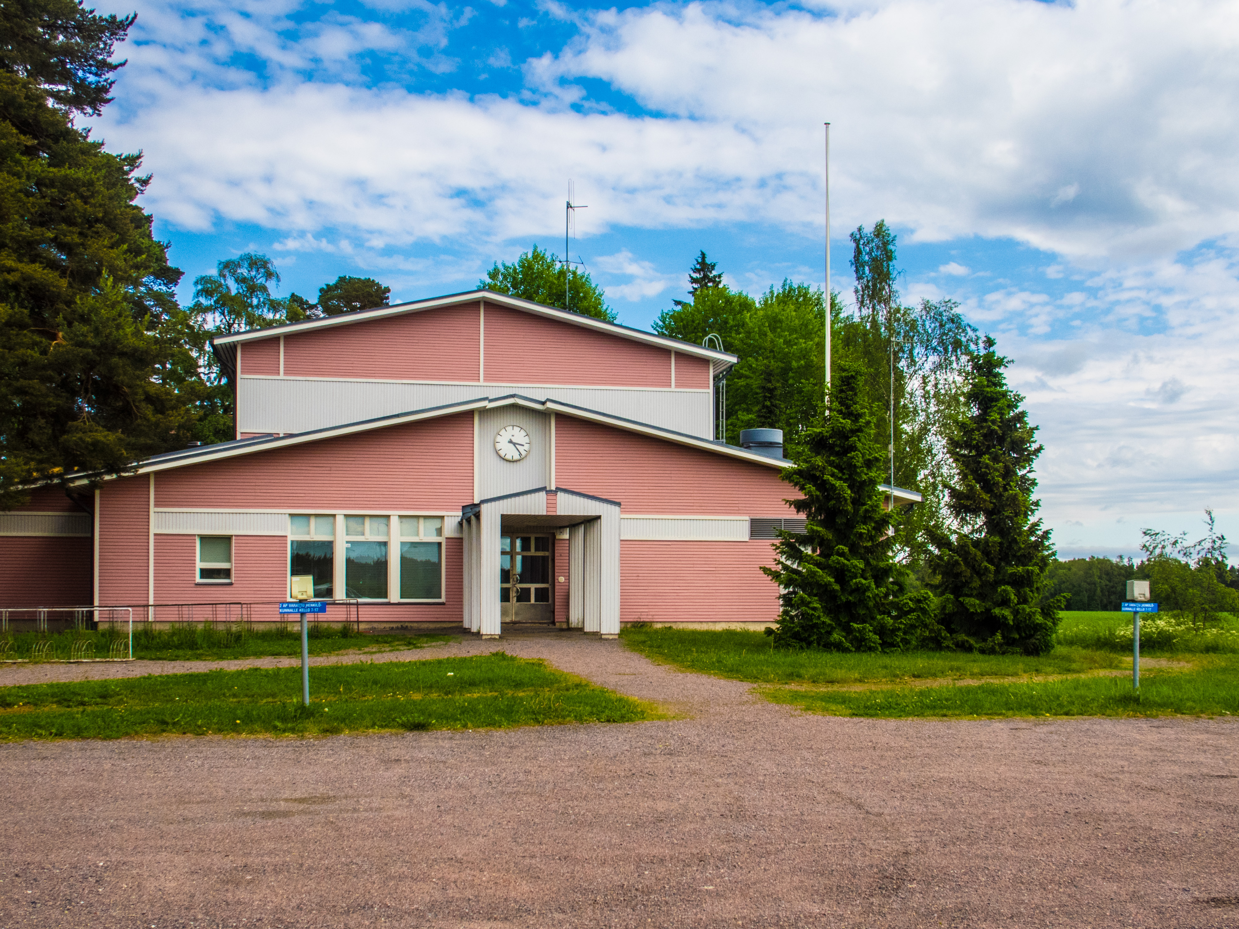 Elementary school near Nautelankoski and former Lieto railway station, Lieto, Finland.